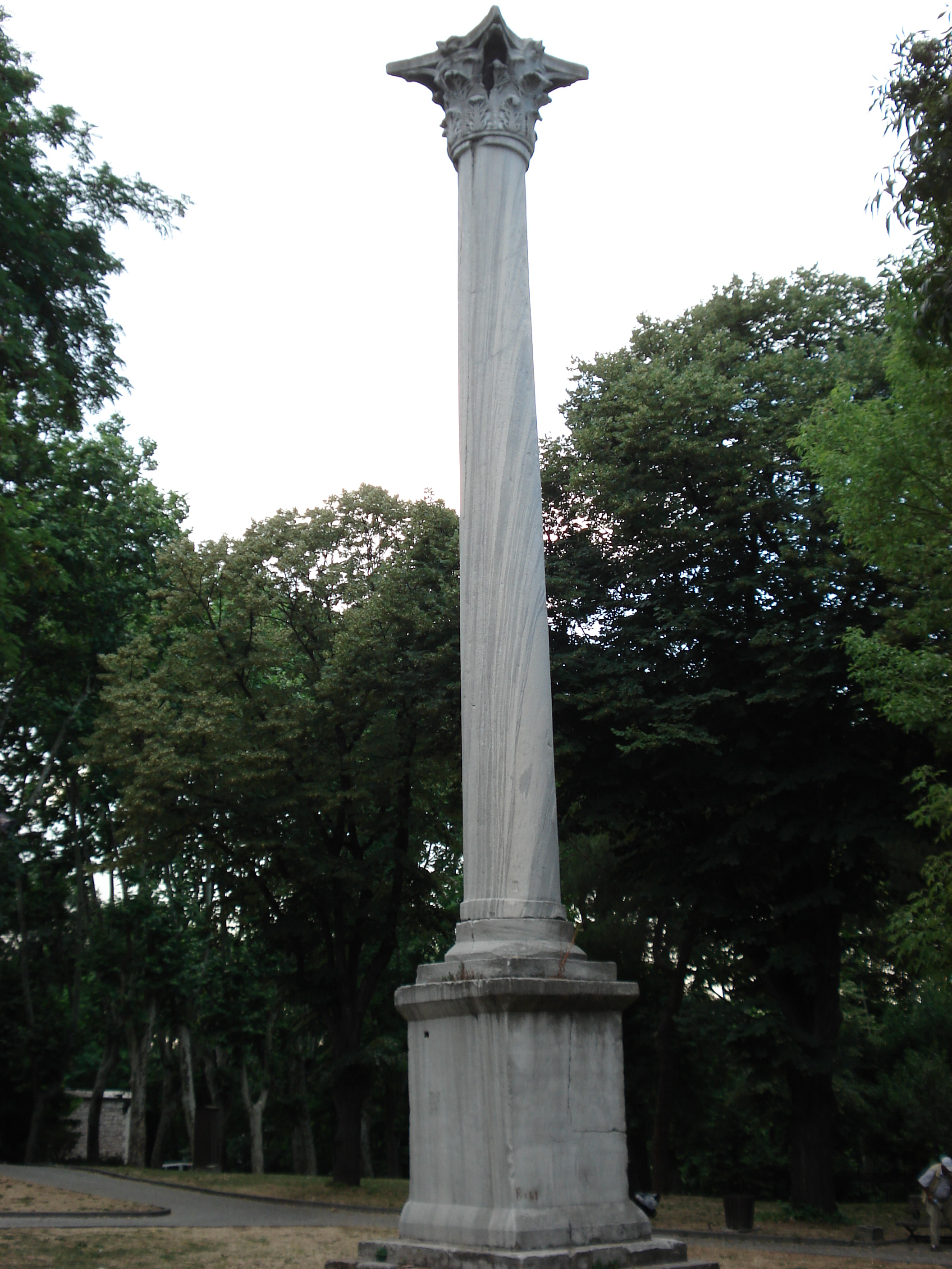 The Goths' Column, Istanbul, Turkey